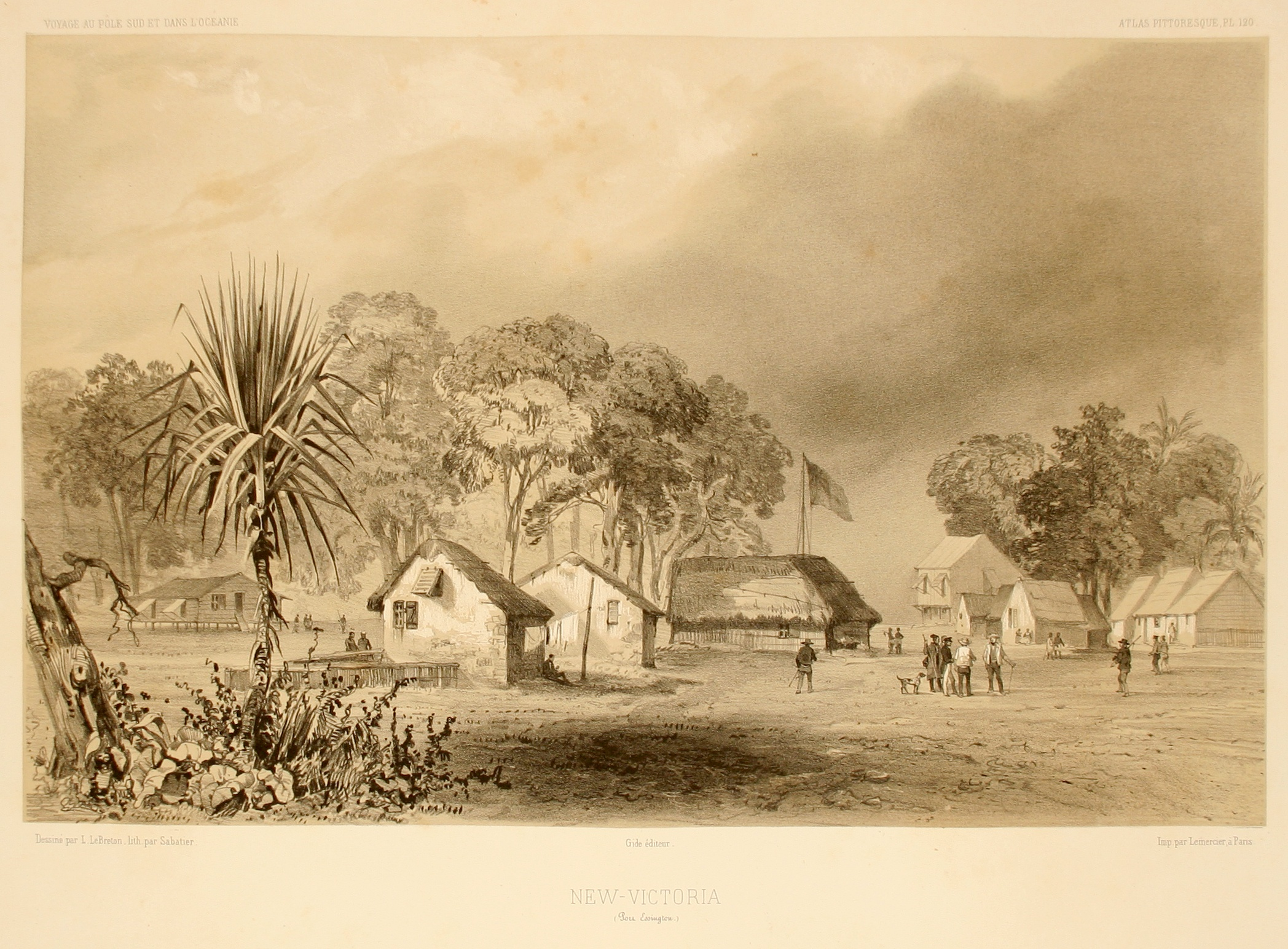 New-Victoria. Atlas pittoresque, planche 120